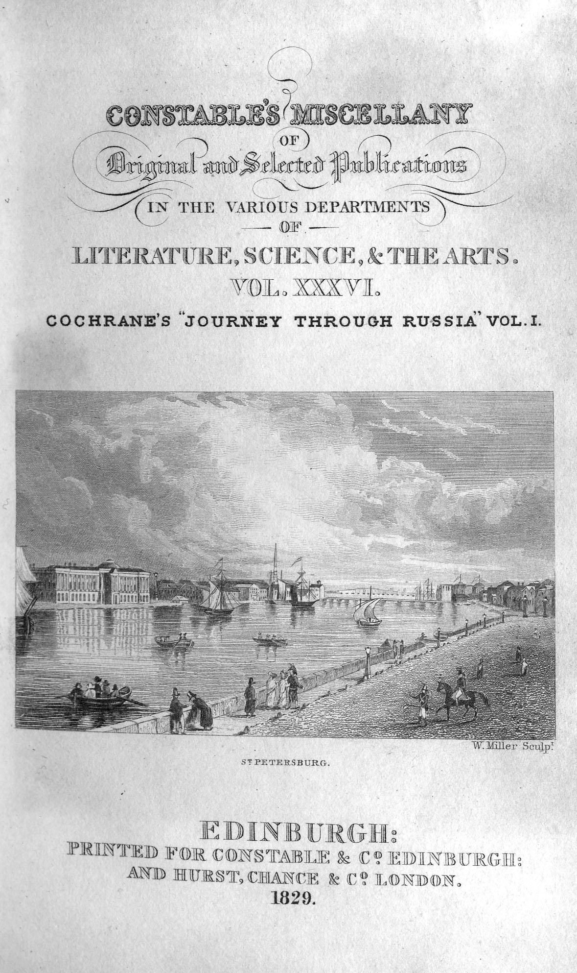 St Petersburg Russia, engraved by William Miller after H W Williams from "Constable's Miscellany of Original and Selected Publications in the Various Departments of Literature, the Sciences & the Arts: Volume XXXVI Cochrane's Journey through Russia Vol I" (Constable & Co., Edinburgh, and Hurst, Chance, and Co., London, 1829)